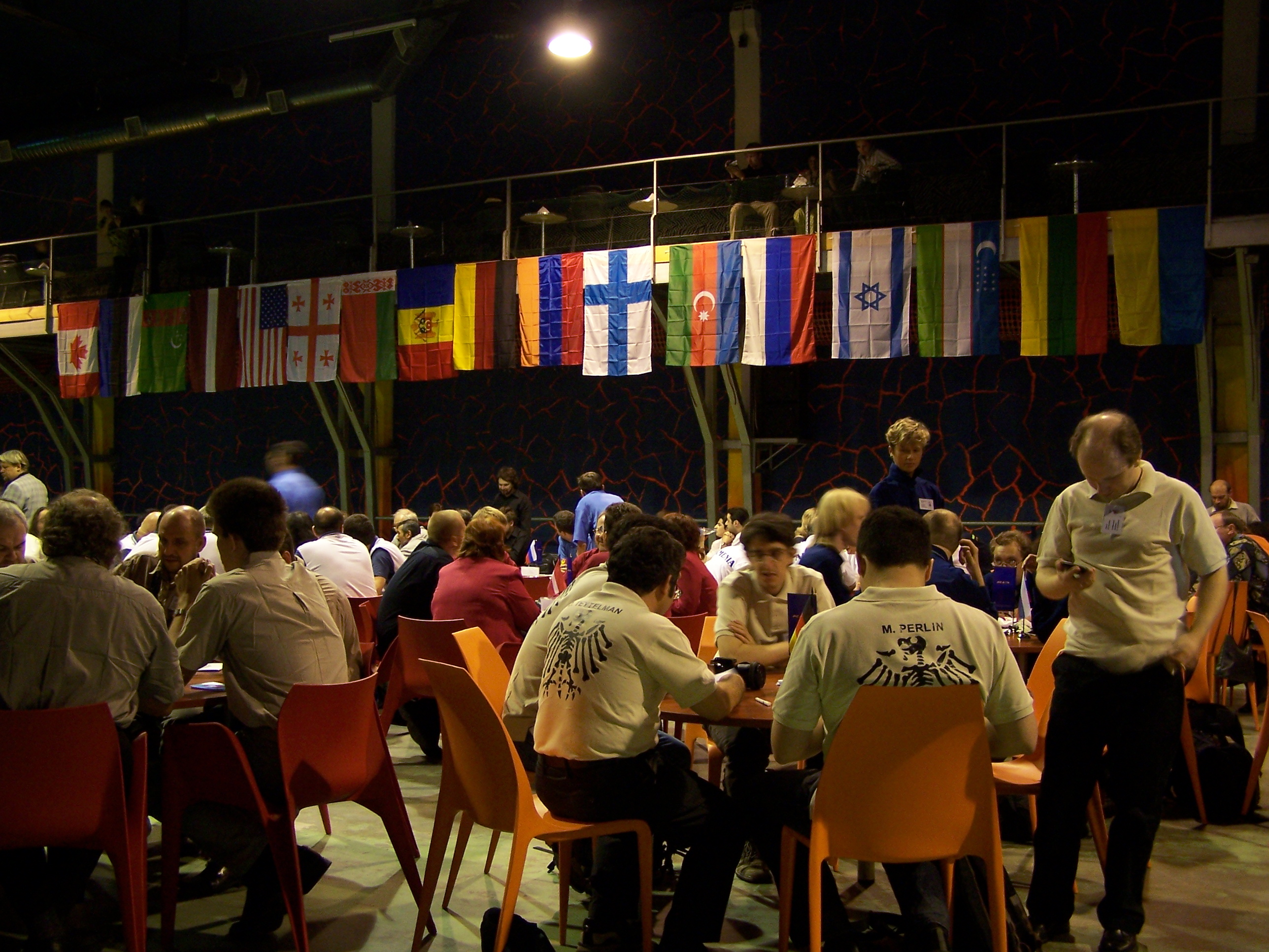 A pause between the games at World Championship by "What? Where? When?".